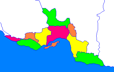 Map of Hormozgan Province